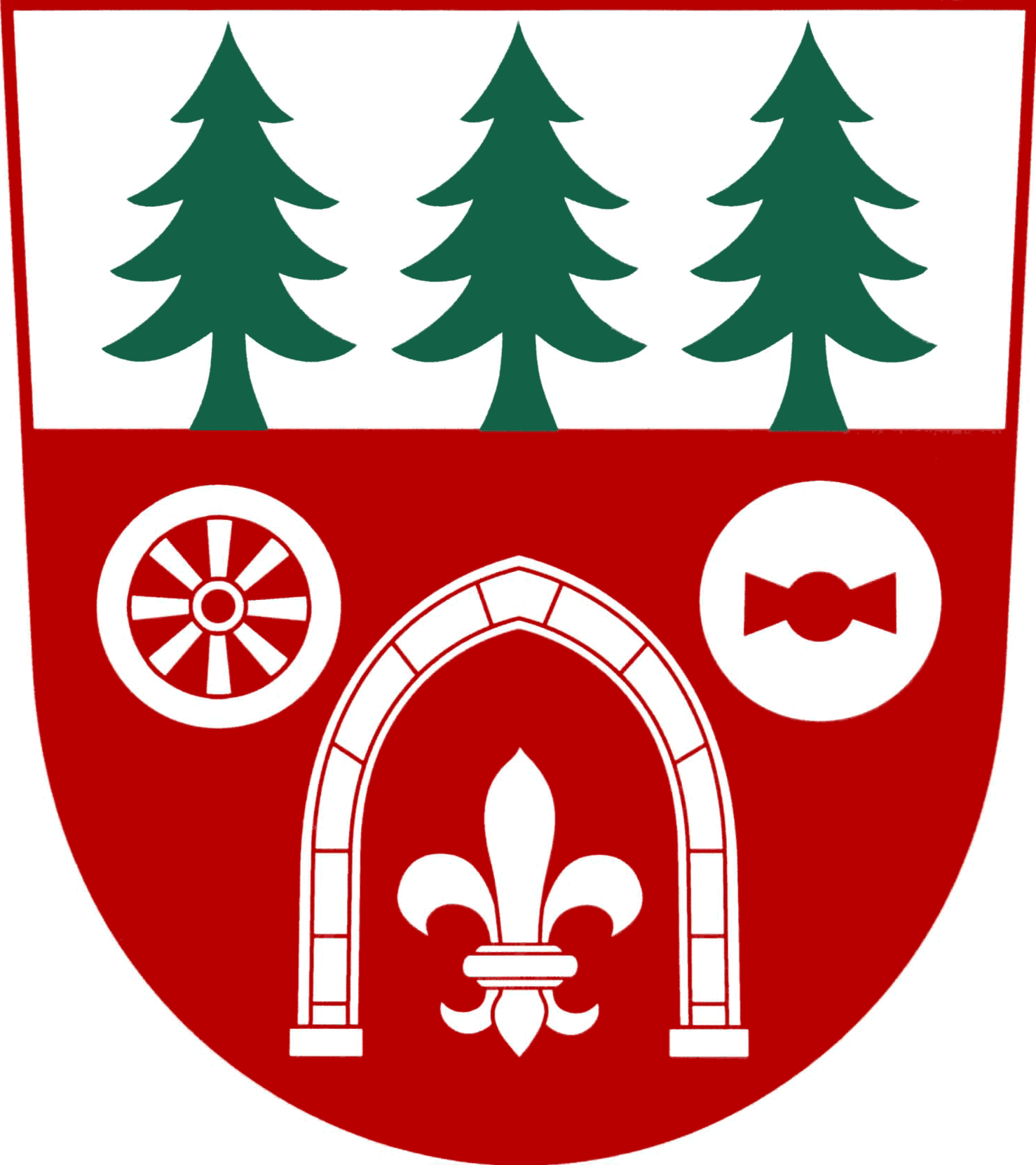 Emblem of Mukařov